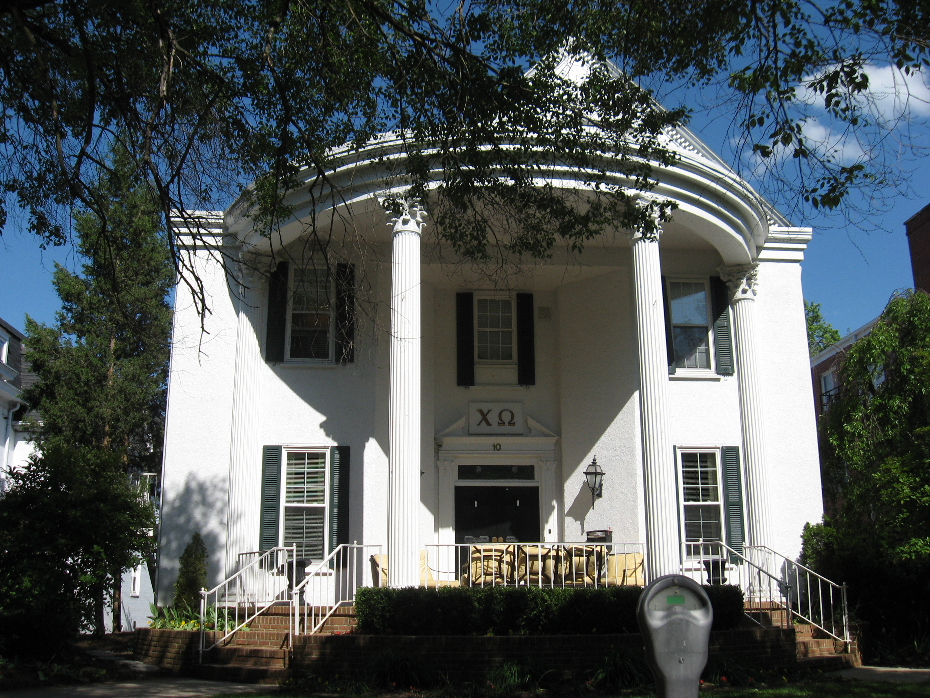 Chi Omega Sorority House at Ohio University(Athens, USA)